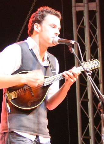 I walked all the way down in the freezing weather, only to not pay enough attention and mess up some settings on my camera. The pictures ended up too blurry, and this is the only one that was good at all. Moral of this story, check to make sure the pictures are good before you stop shooting, even if you are freezing to death.